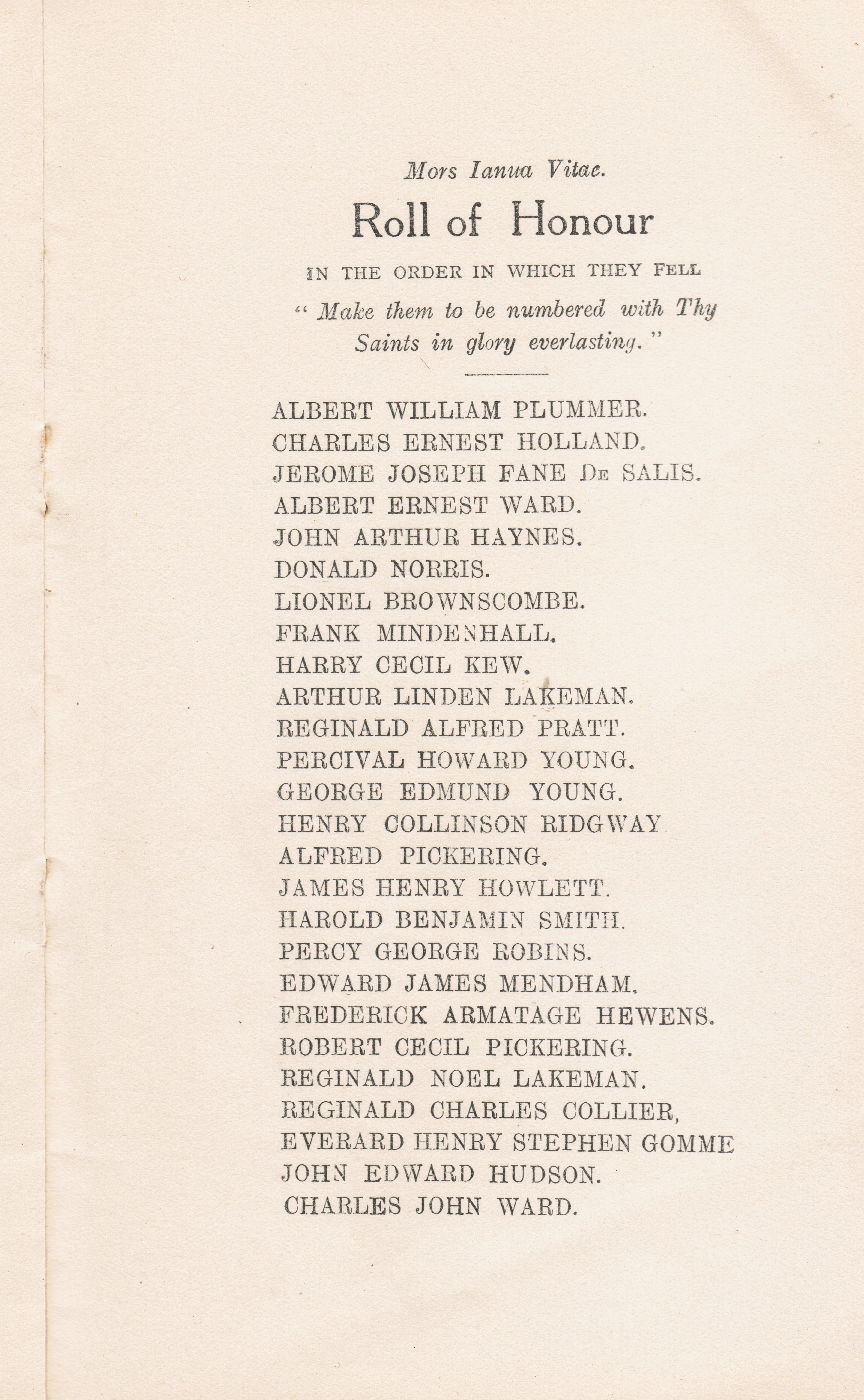 Scan (by me, R. de Salis, Rodolph (talk) 01:32, 13 December 2014 (UTC)) of Uxbridge County School's War Memorial unveiling's Order of Service, showing the Roll of Honour, December 1922.